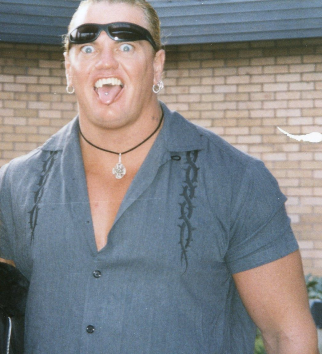 David Heath, better known as Gangrel